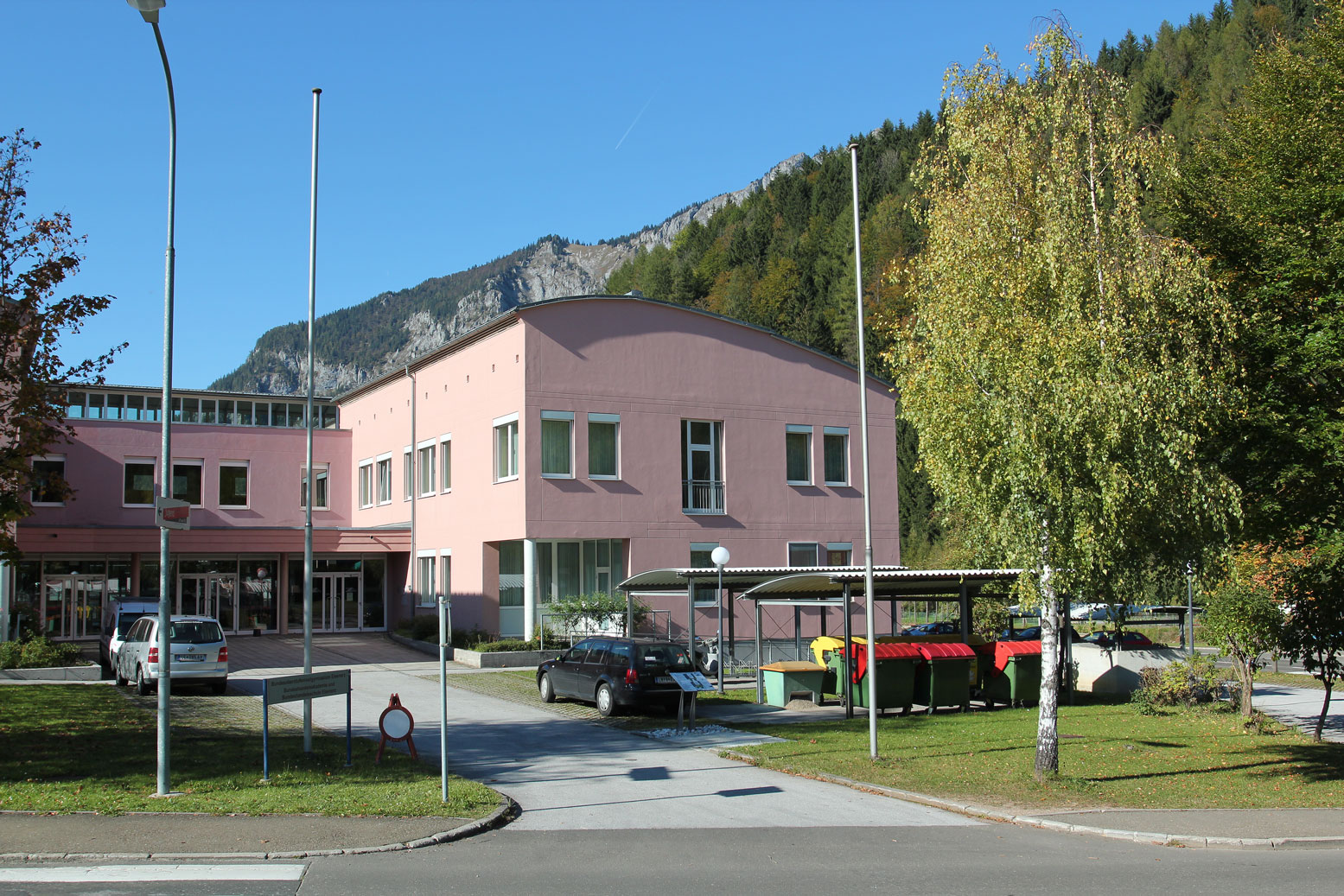 This is the BHAK/BHAS School in Eisenerz